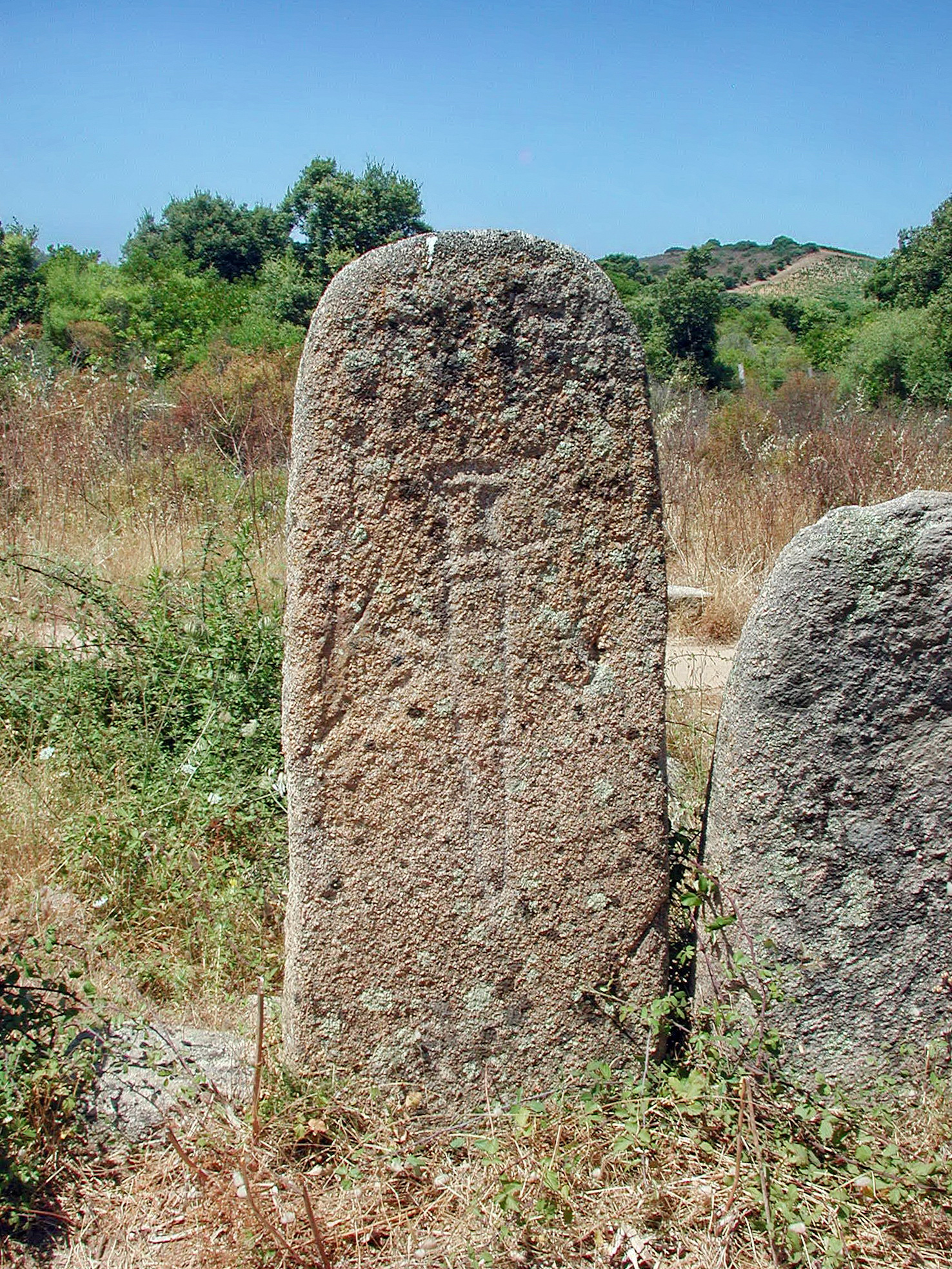 Corsica, Palaghju, armoured menhir